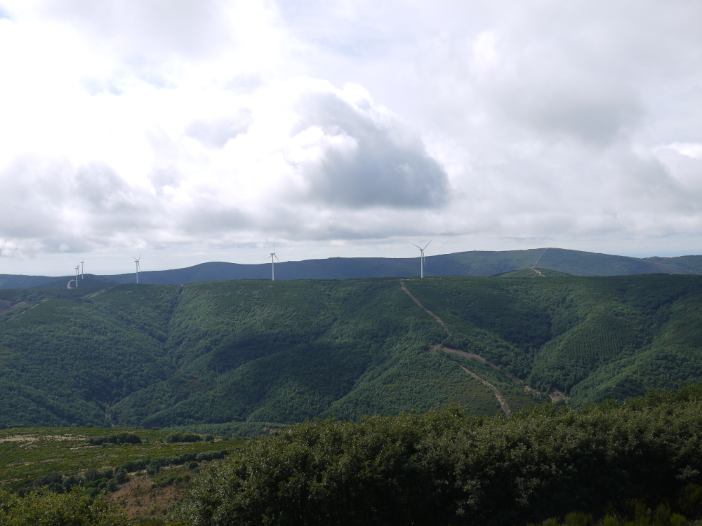 Windmills in La Lomba (Riello, León, Spain)